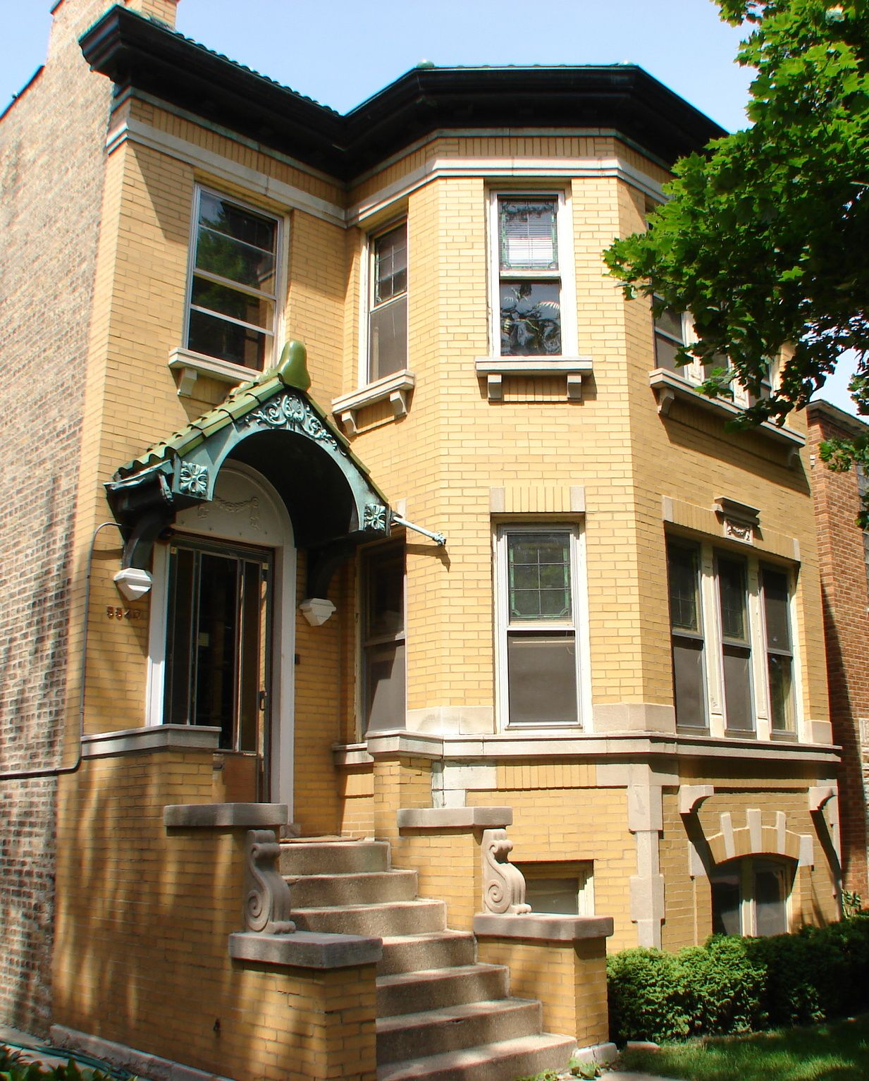 Alex LeClair's house.